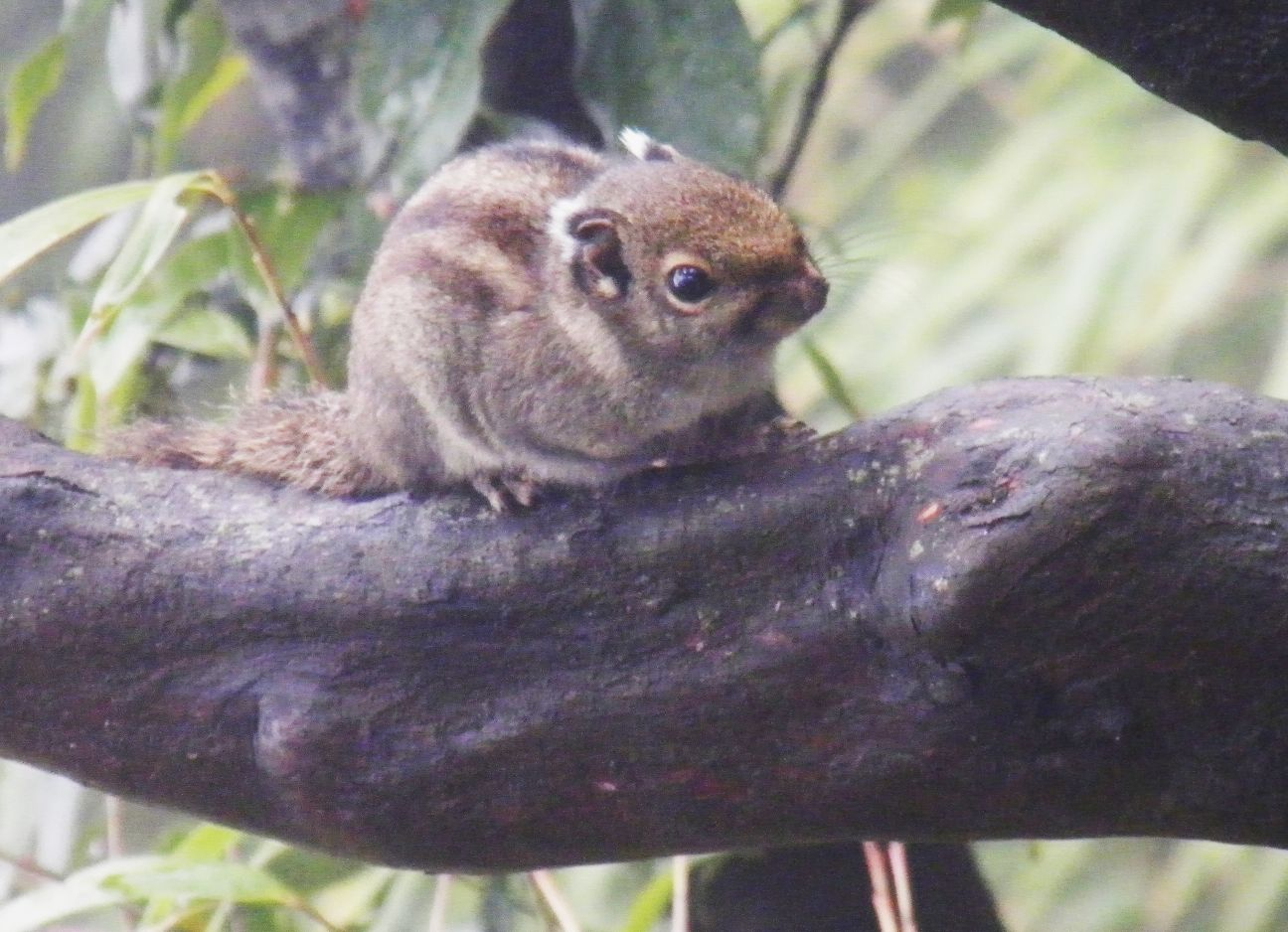 Maritime striped squirrel Tamiops maritimus, Mount Sanqing, Jianxi, PR China